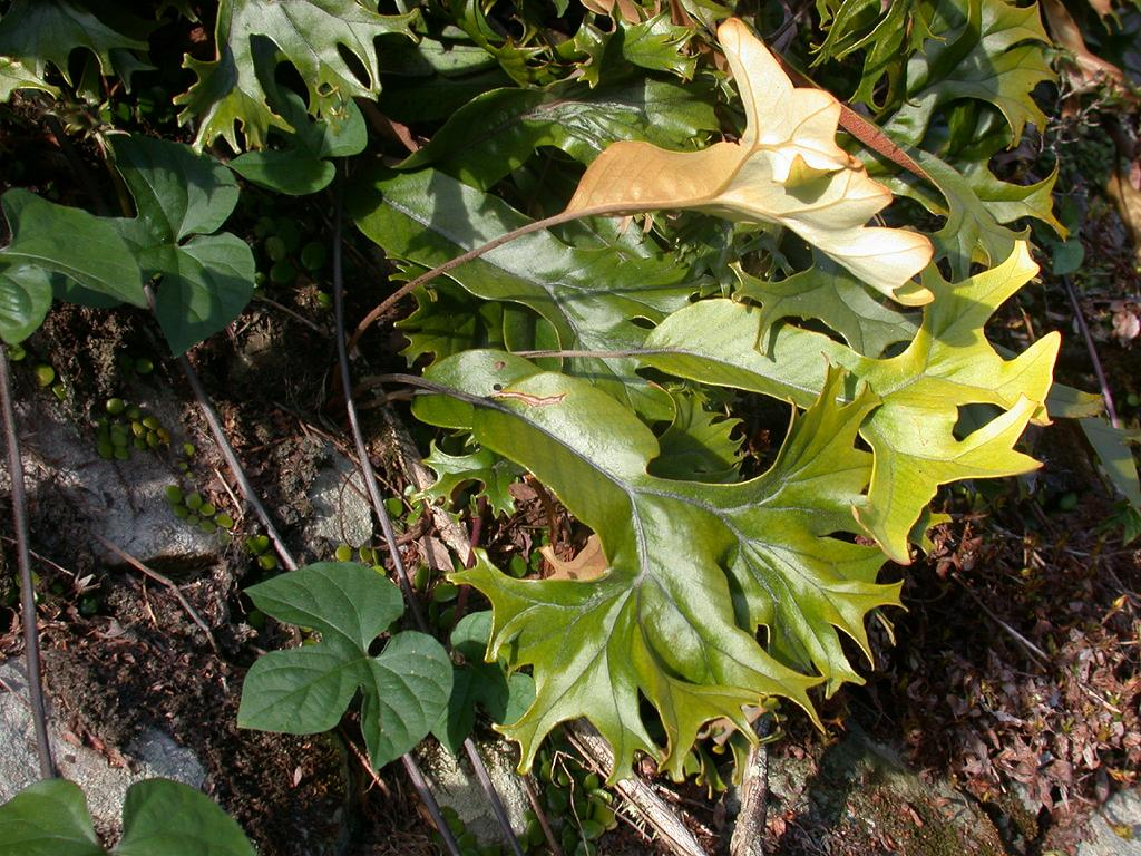 Name Pyrrosia lingua f. cristata（シシヒトツバ） Family Polypodiaceae(Pteridophyta) Date;2006,11;Susami town, Wakayama prefecture, Japan Author;Keisotyo